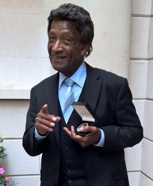 Frank Holder with his Life-Time Achievement Award from The Worshipful Company of Musicians presented on 15 July 2015 when Frank was 90